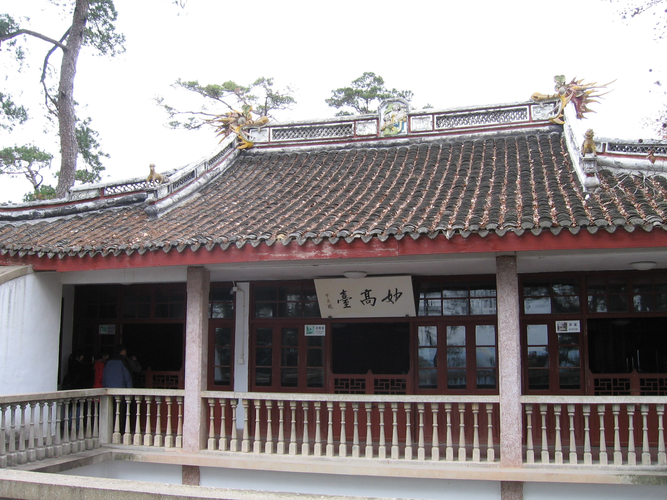 The second storey of Chiang Kai-shek's house Miaogaotai in Xikou, Fenghua, Ningbo city, Zhejiang Province, China.